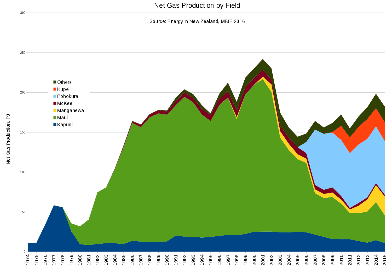 graph of net gas production in New Zealand, by field, 1974 to 2015